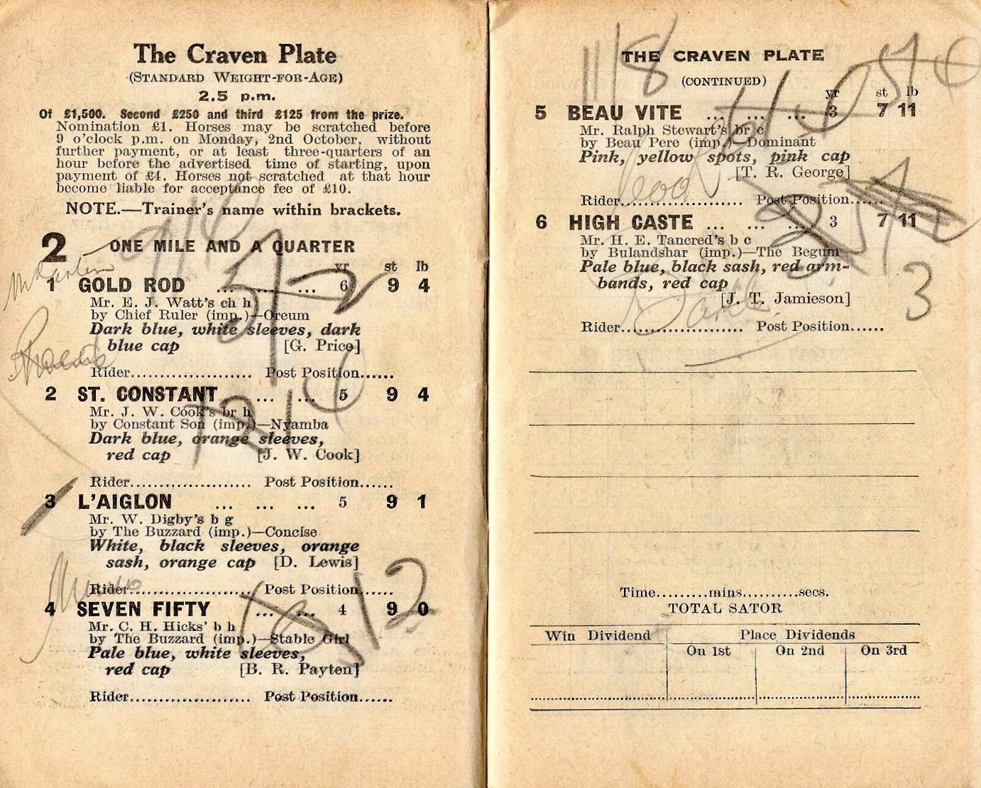 COPIED FROM ORIGINAL RACEBOOK